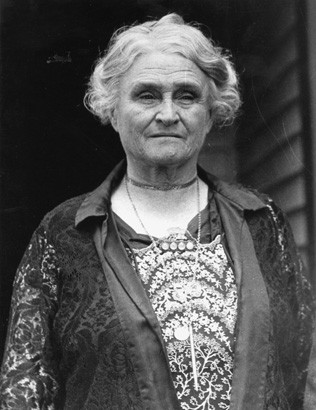 This is a photograph of Edith Cowan (1861–1932), first woman elected to an Australian parliament. The original photograph is a black and white photoprint 32 x 25 cm, mounted with the text "Mrs Edith Cowan O.B.E. J.P. Member for West Perth. First woman to sit in an Empire Parliament. Foundation member W.S.G. 1909